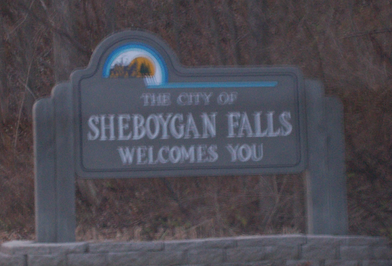 The welcome sign for Sheboygan Falls, Wisconsin, USA. Taken on County PP on the city's east side.